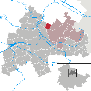 Schillingstedt in Thuringia - District Sömmerda